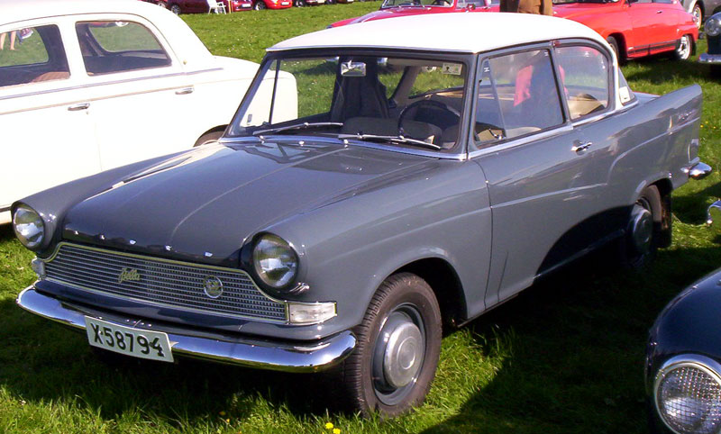 Lloyd Arabella